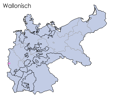 Locator map for the minority of Wallonian (Walloon) language in the German Empire in 1900